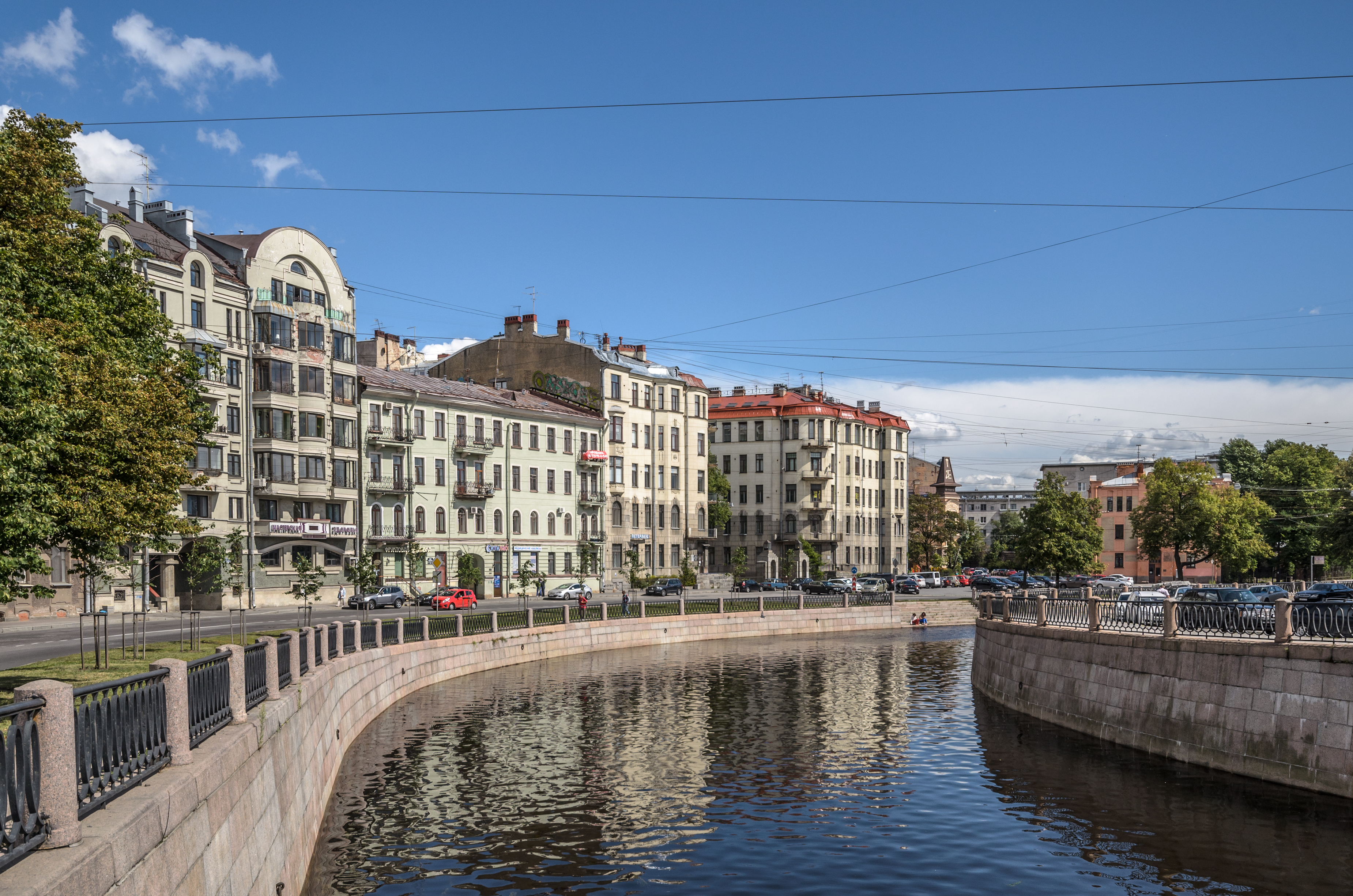 Karpovka River Embankment in Saint Petersburg